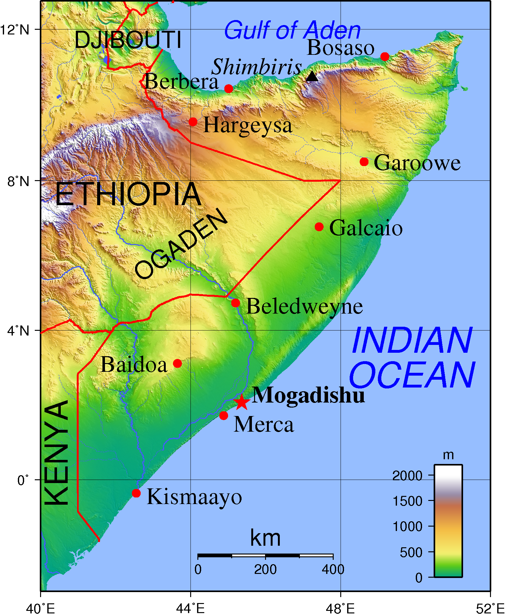 Topographic map of Somalia — with english labels. Created with GMT from public domain GLOBE data.